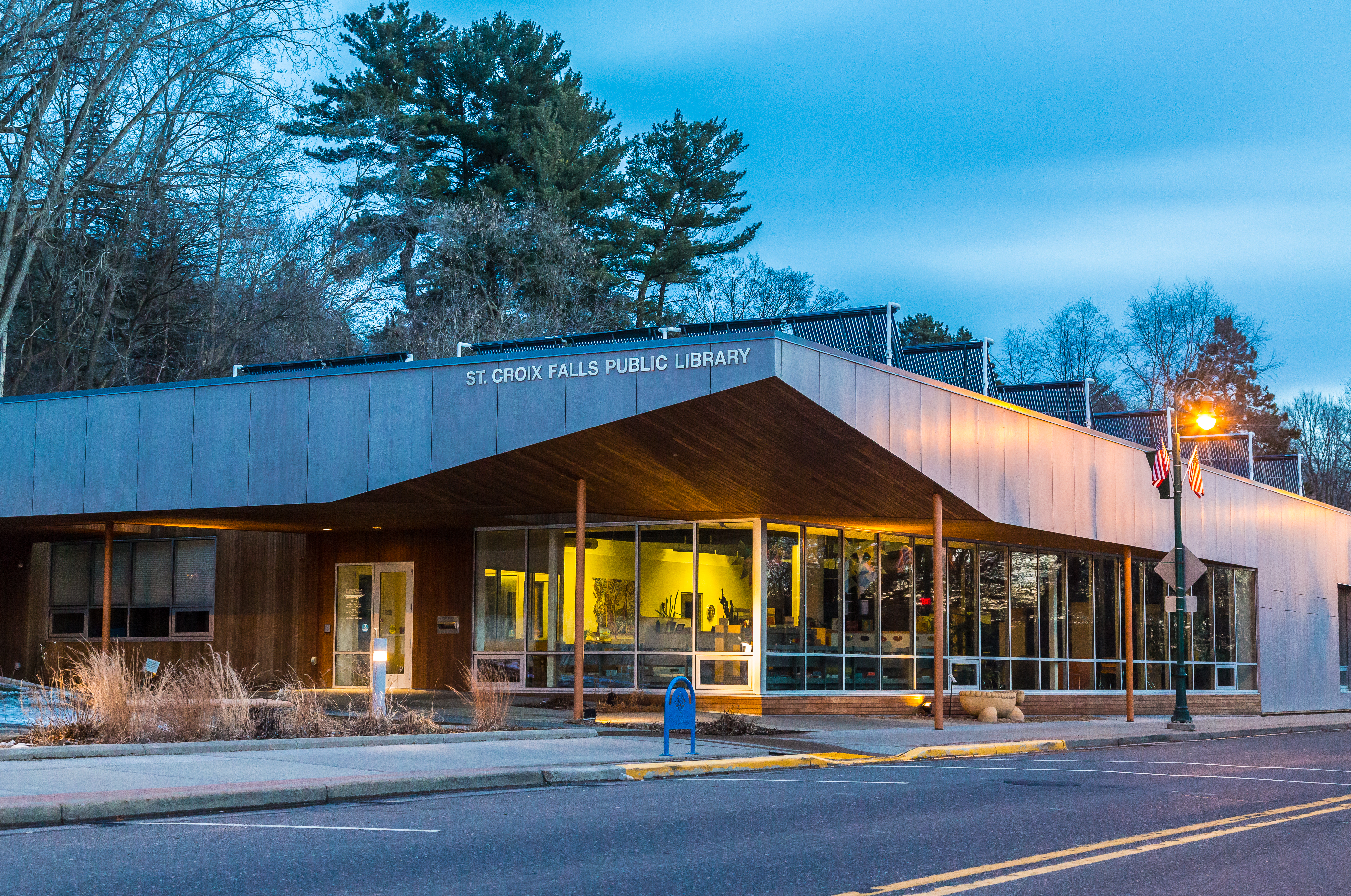 The St. Croix Falls Public Library located at 230 South Washington Street in St. Croix Falls, Wisconsin. Opened 2009.